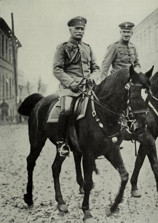 Picture of August von Mackensen